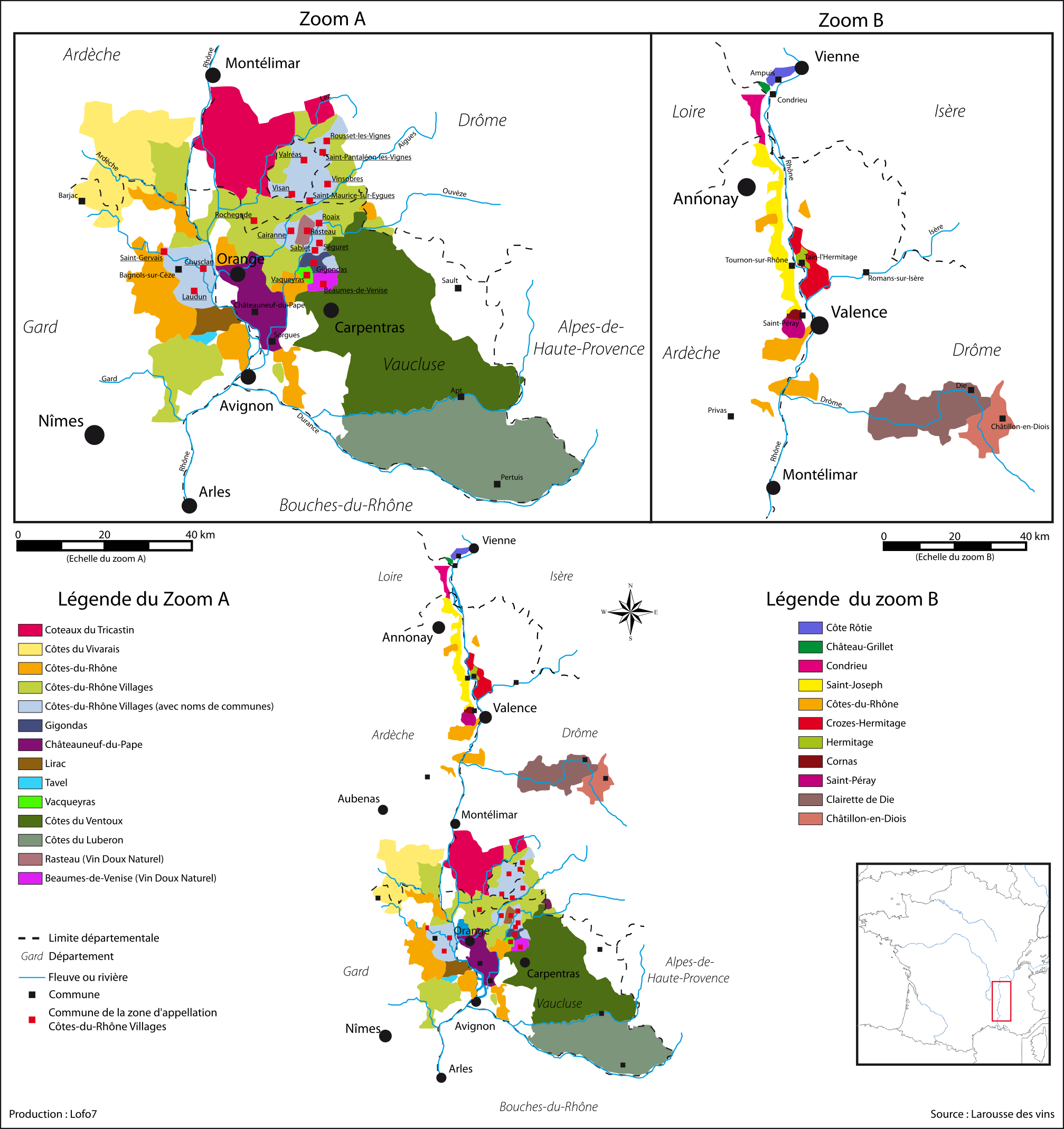 Wine-growing areas of the Rhône valley